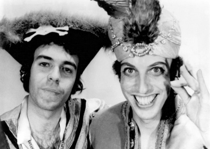 Publicity photo of Philip Proctor and Peter Bergman.